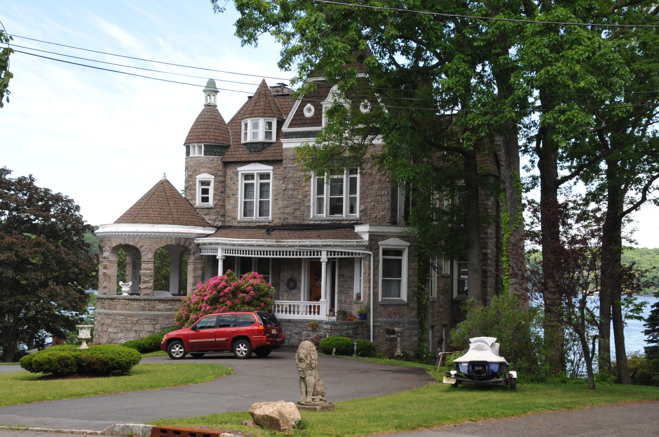 CASTLE ON THE LAKE – EDGEMERE AVENUE; CIRCA 1895 DESIGNED & BUILT FOR FRANCIS HIMPLER, NOTED ARCHITECT OF THE 19TH CENTURY. CONSTRUCTED OF IMPORTED STONE W/MANY ARCHITECTURAL FEATURES. NAMED "MIRA LACUM" VIEW OF THE LAKE